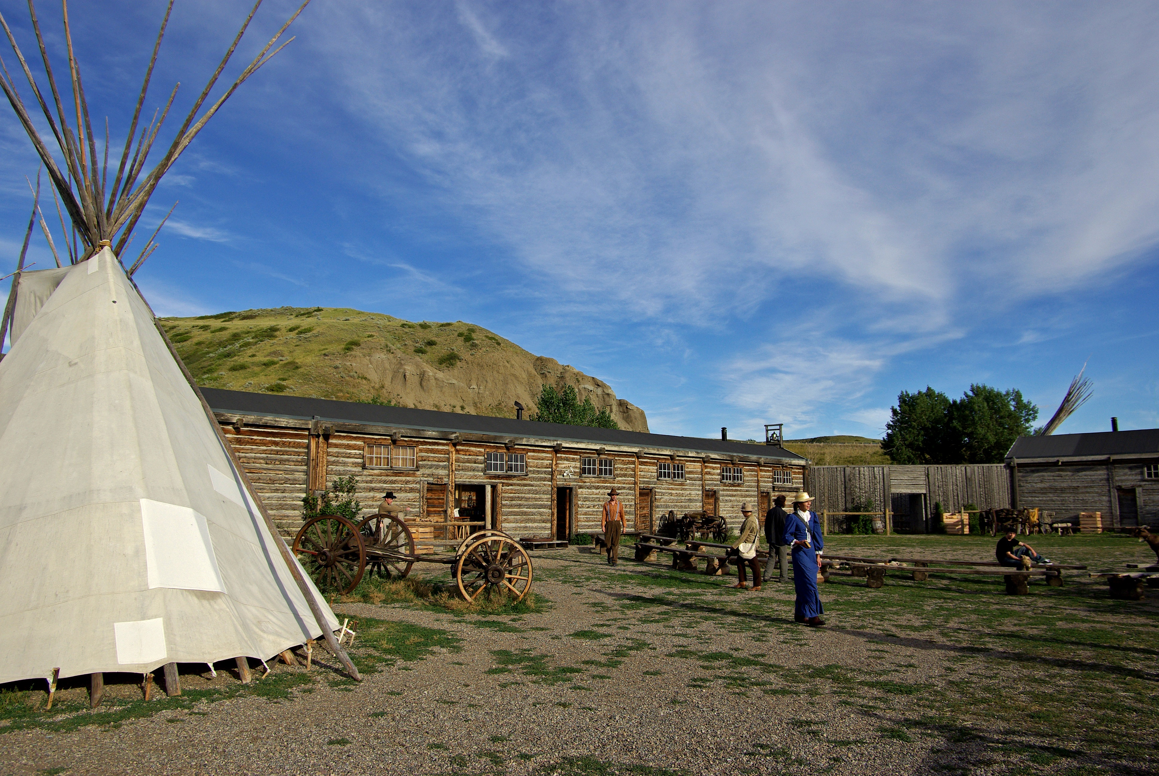 Photo of Fort Whoop Up, Lethbridge, Alberta, August 2008